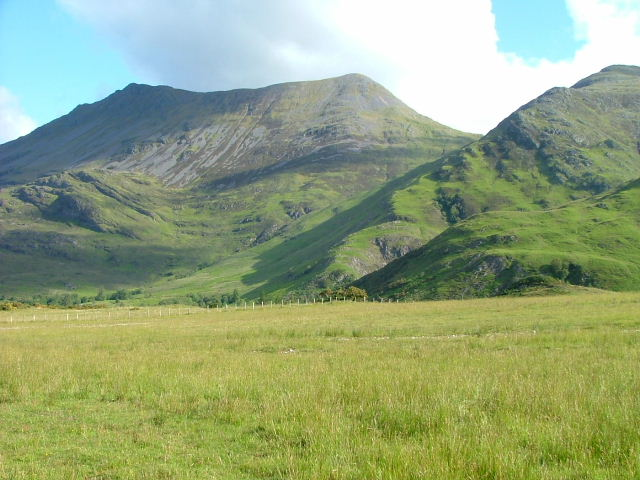 Pasture land at Corran The hill in the distance is Beinn nan Caorach.